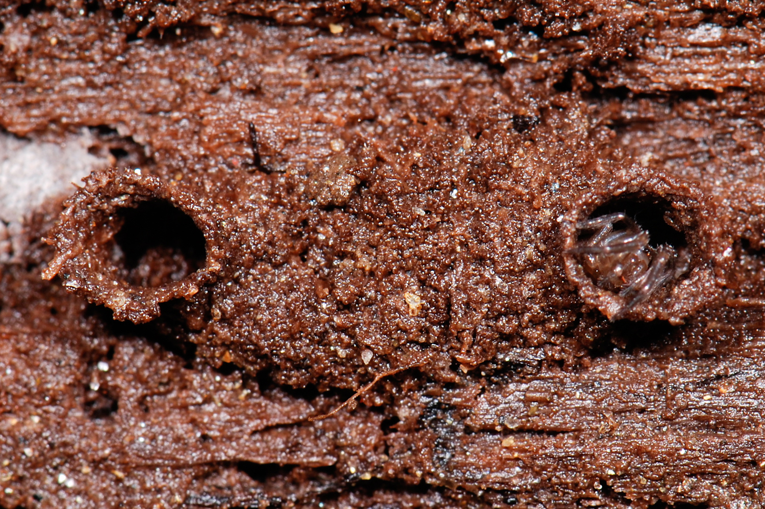 Found in characteristic tubular retreat, under log, western North Carolina. A paper describing the natural history of this species can be found here